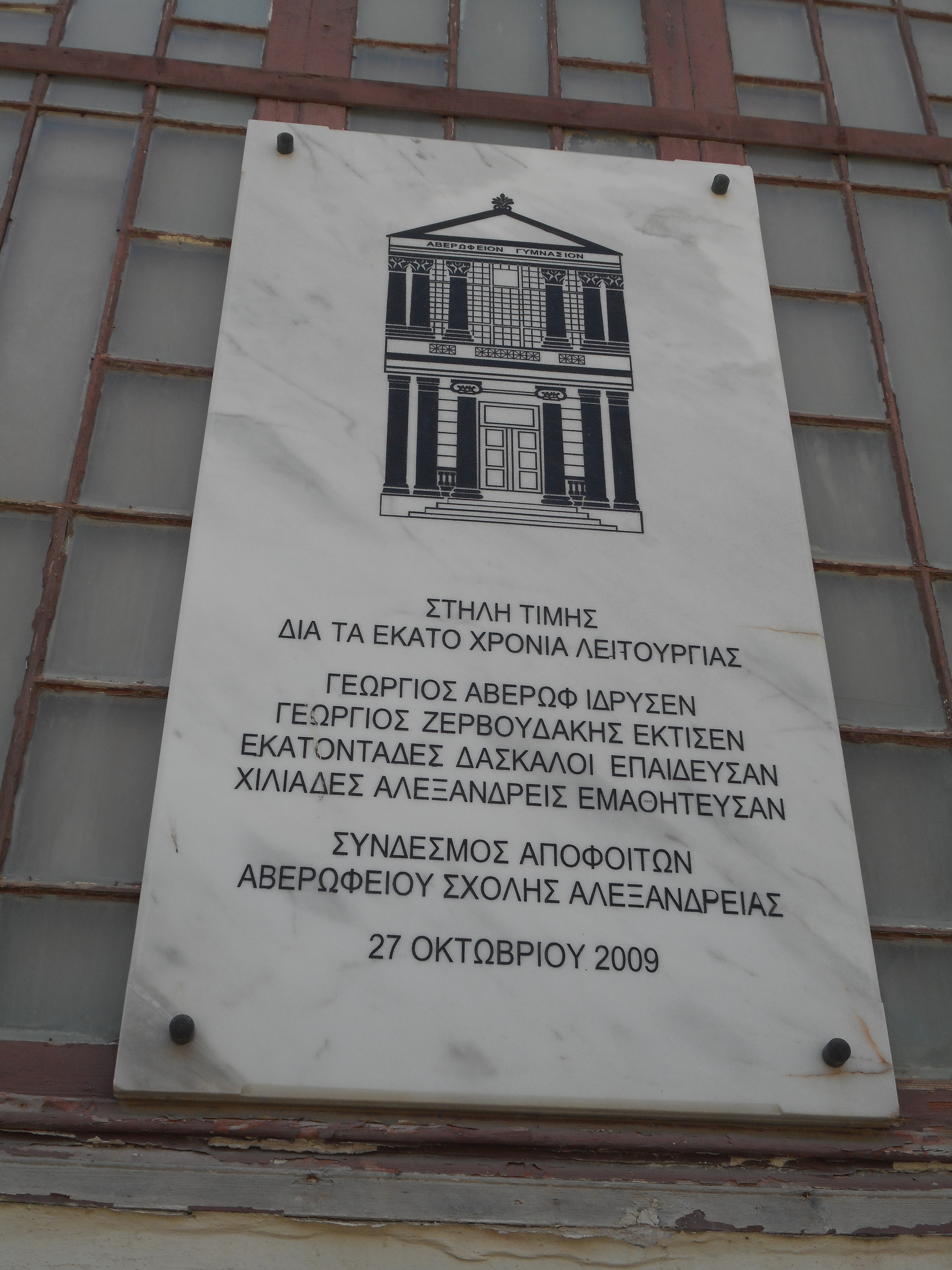 Greek schools in Alexandria